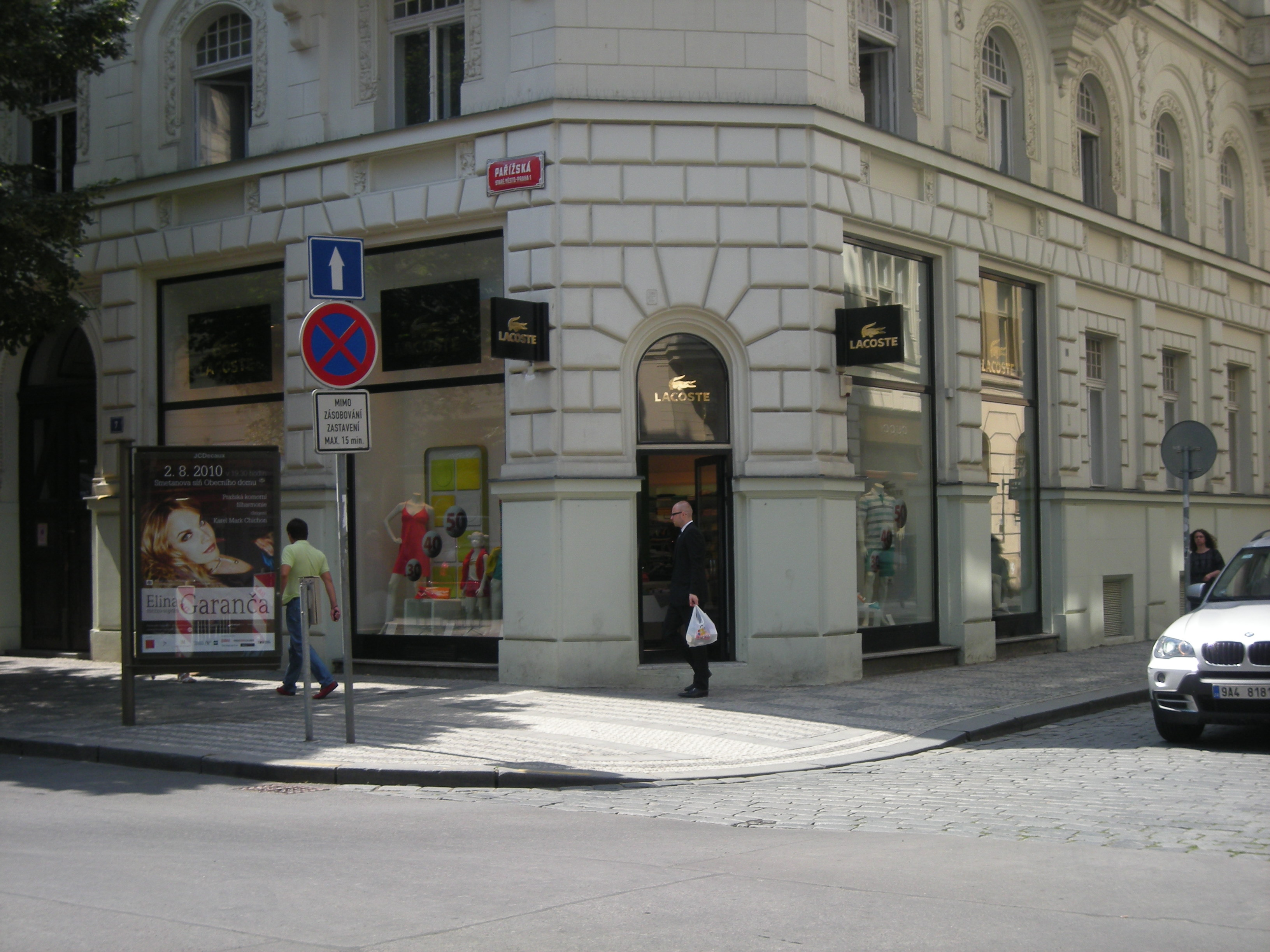 Lacoste store on Parizska street, Prague.